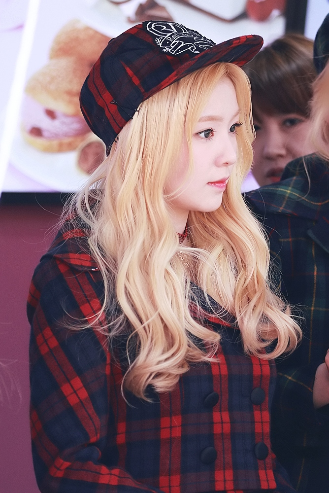 Irene Bae at fansing Ice Cream Dating in Sinchon on March 29, 2015.